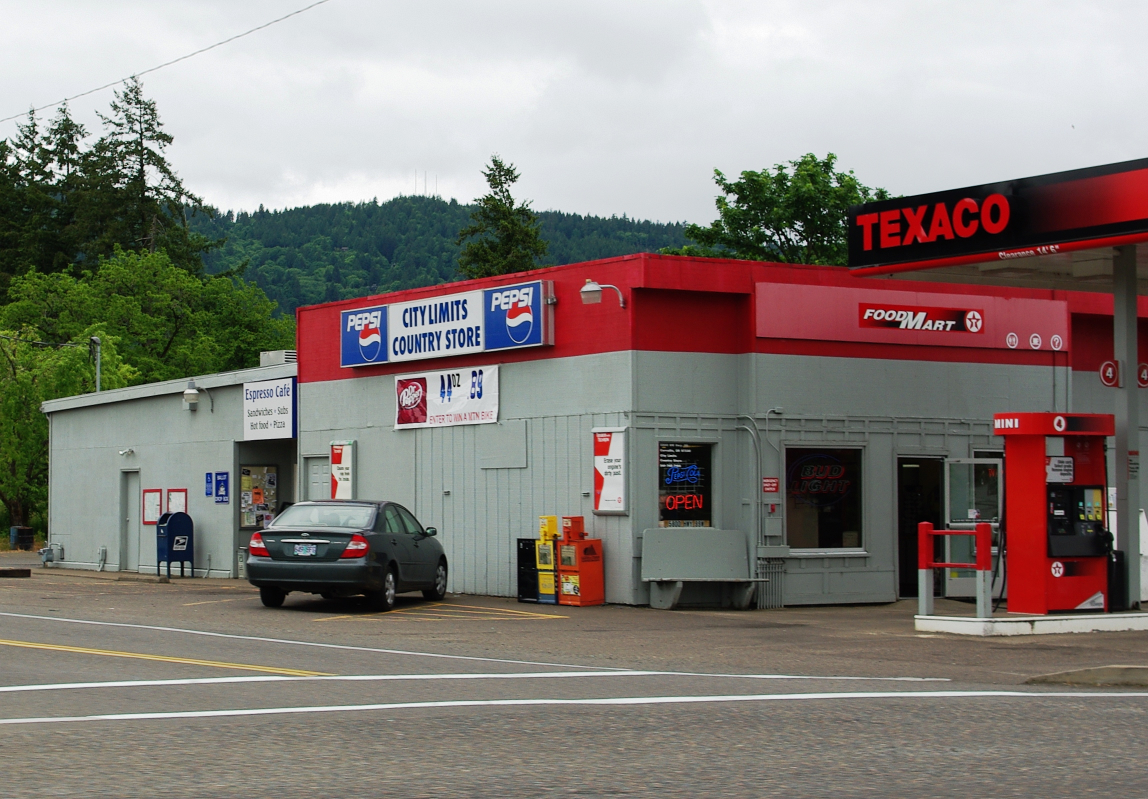 Lewisburg, Oregon store